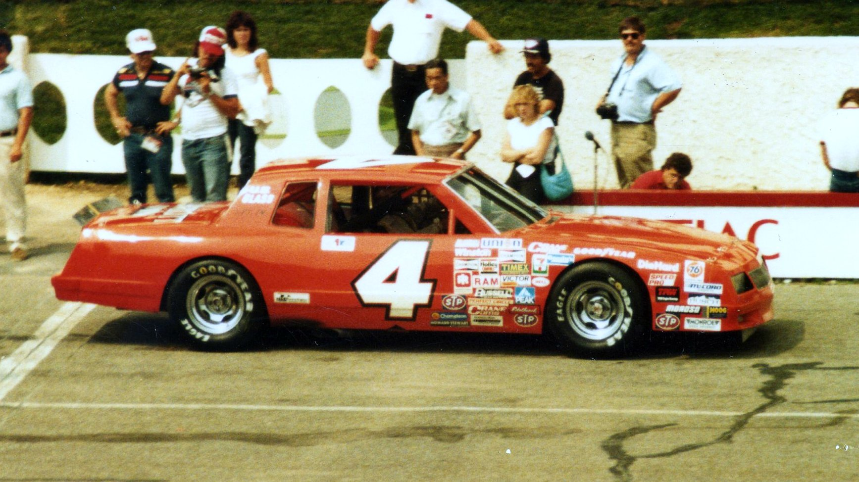 Tommy Ellis driving the Morgan-McClure Motorsports #4 car at Pocono in 1984.